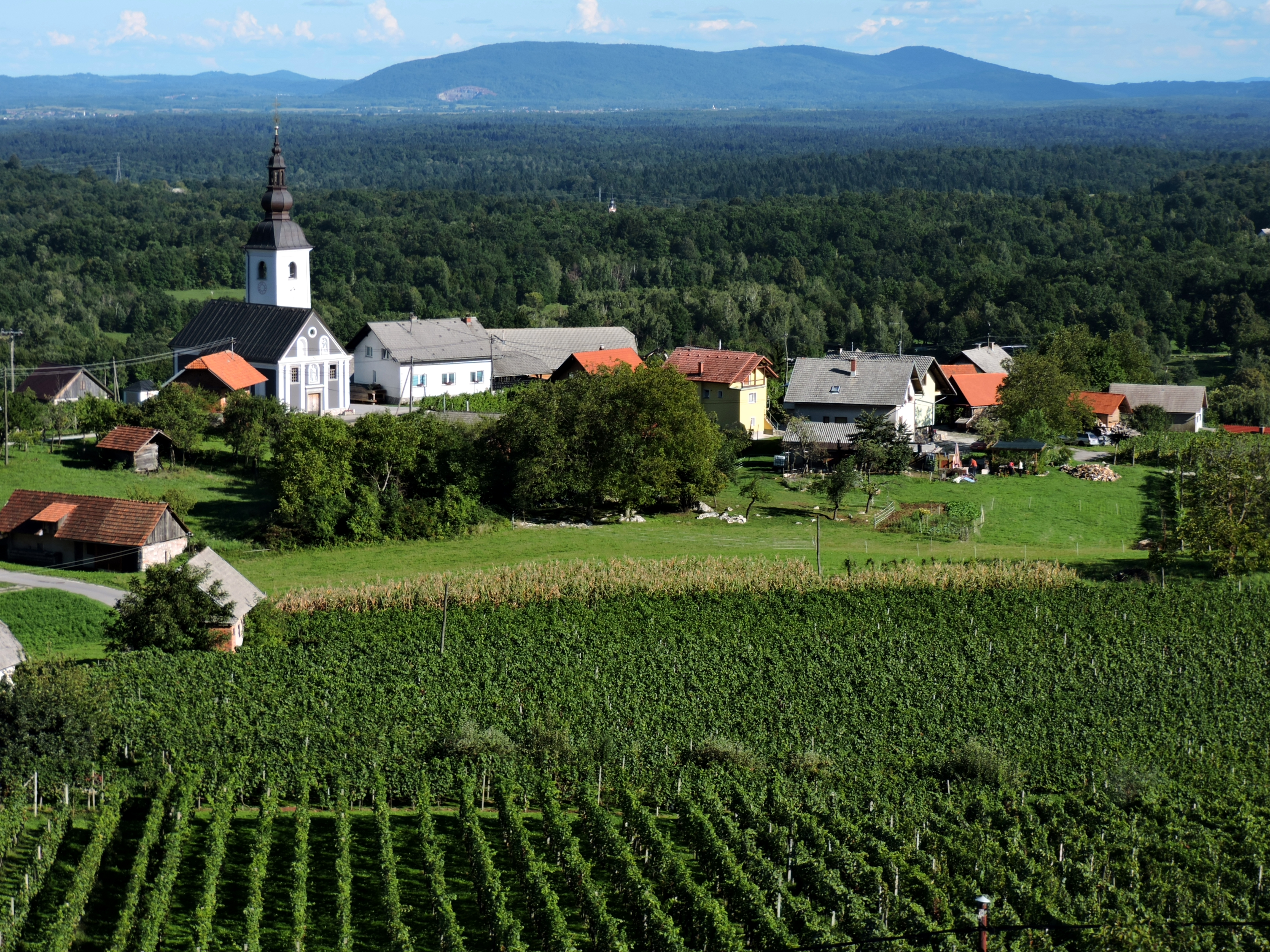 Church of Saint Joseph in Spodnje Gorenjce near Semič. The picture was taken on the railway overpass near the railway station Semič.